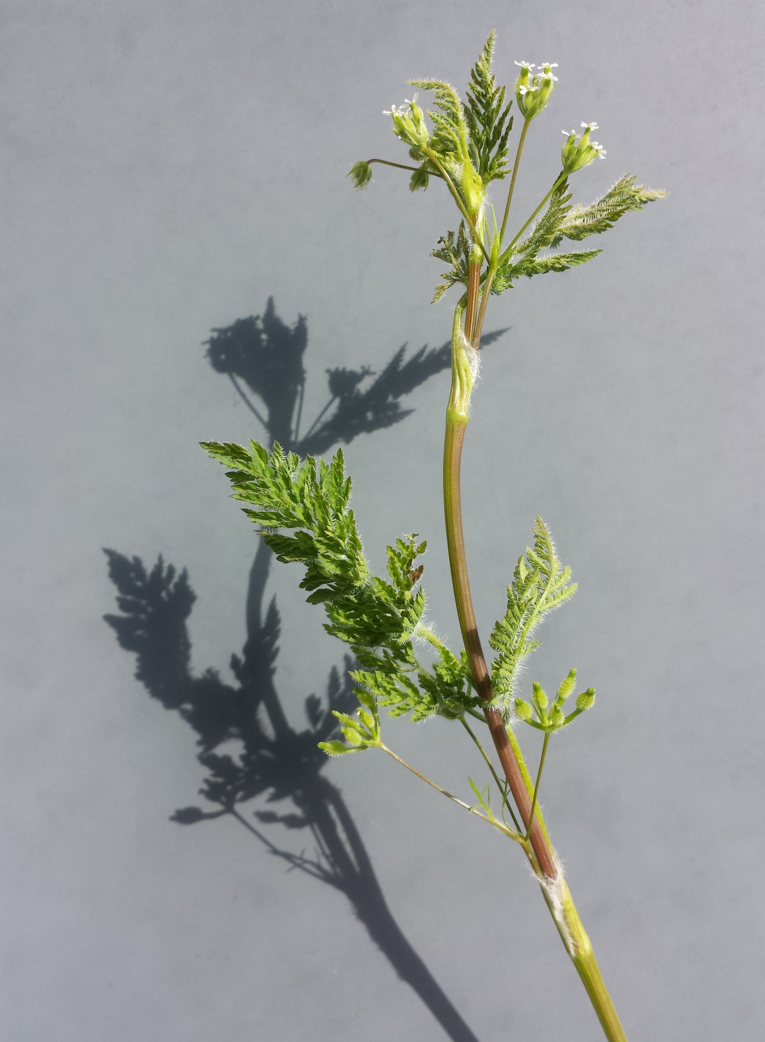 Habitus Taxonym: Anthriscus caucalis ss Fischer et al. EfÖLS 2008 ISBN 978-3-85474-187-9 Location: Donauinsel near intake works, district Wien-Umgebung, Lower Austria - ca. 160 m a.s.l. (leg. 2015-04-23) Habitat: roadside